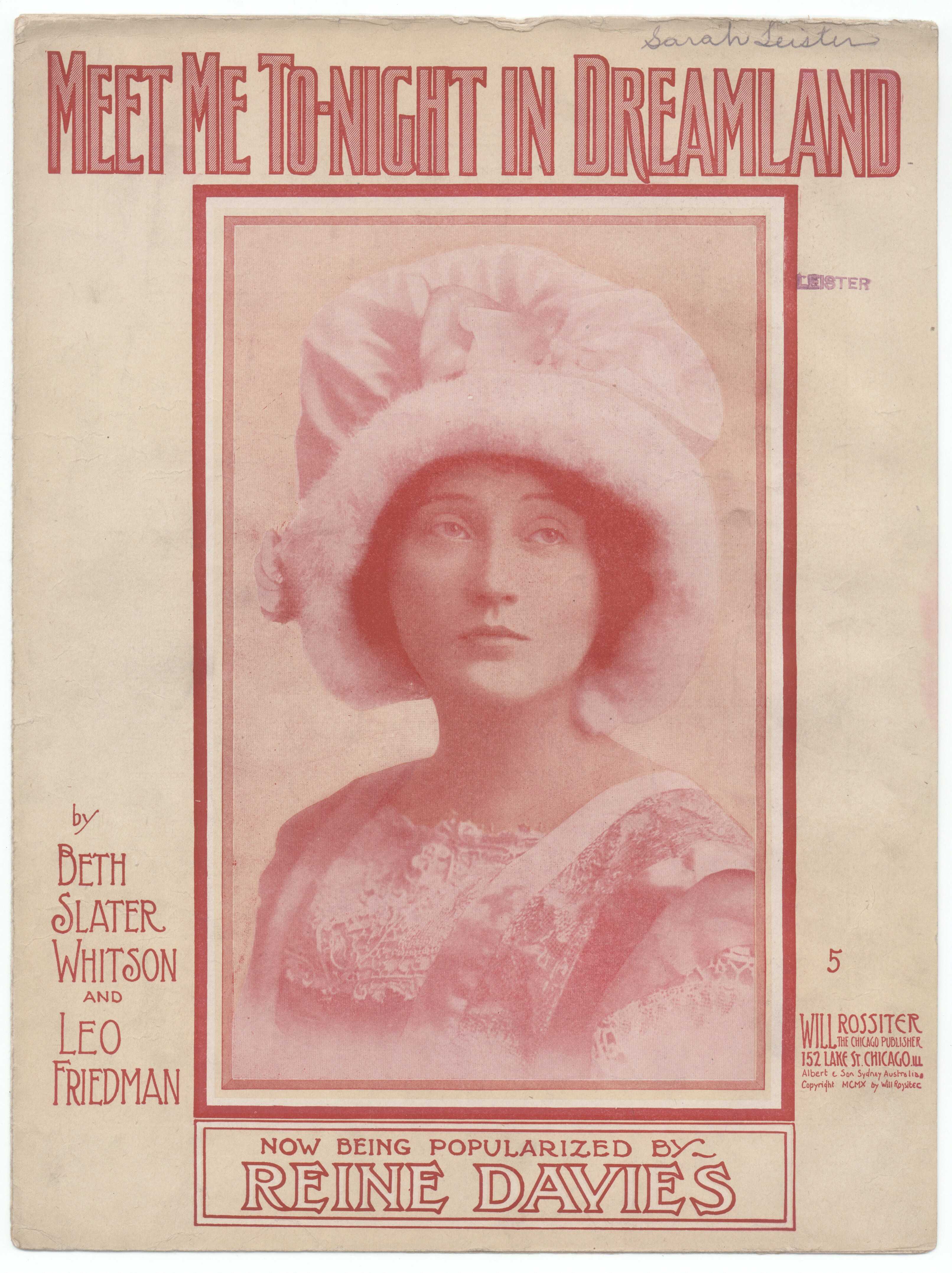 Front cover of the sheet music for the song "Meet Me Tonight in Dreamland", featuring a photograph of actress Reine Davies. The waltz was written by Leo Friedman (music) and Beth Slater Whitson (lyrics), and published in 1909.